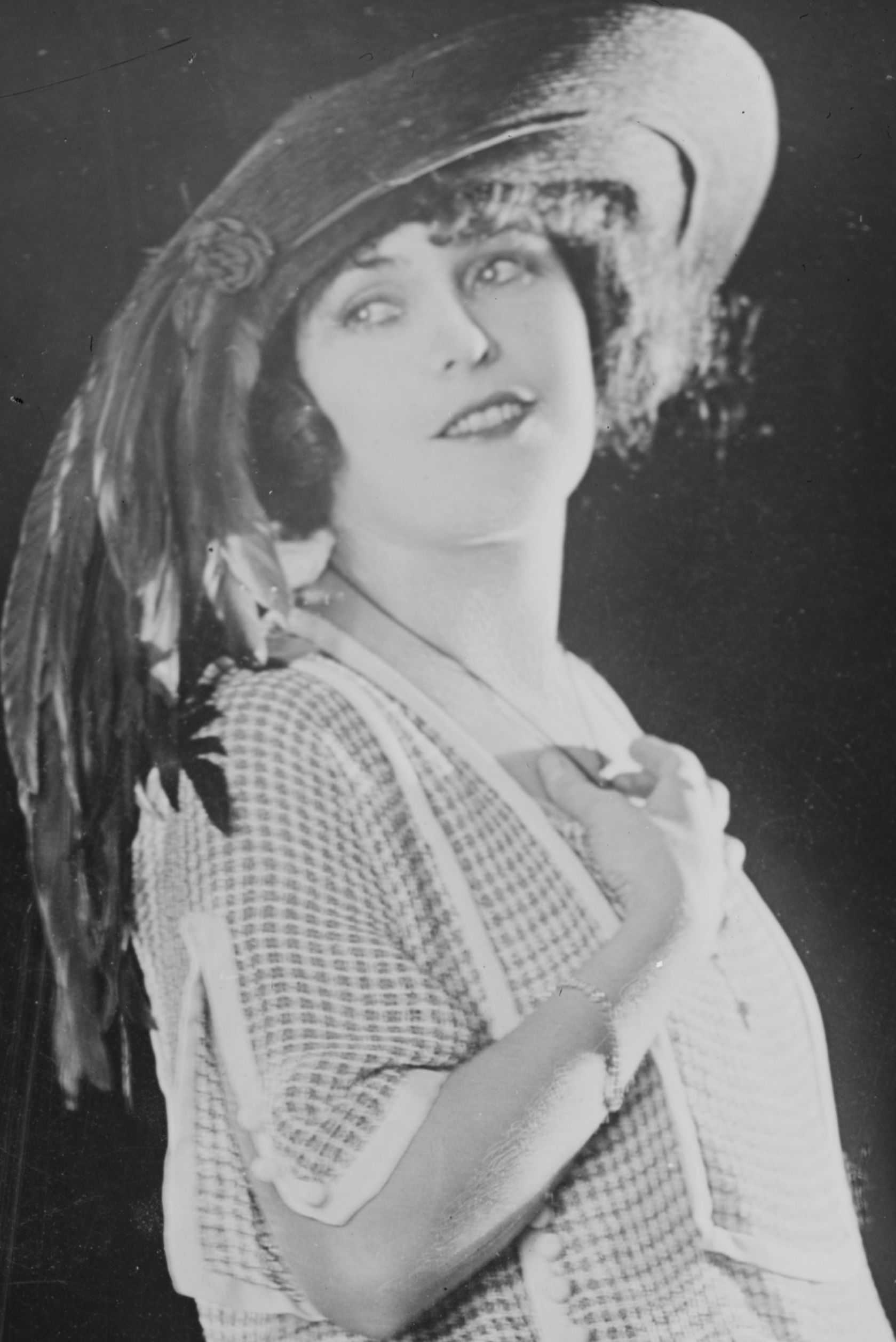 Hollywood actress Ruth Roland